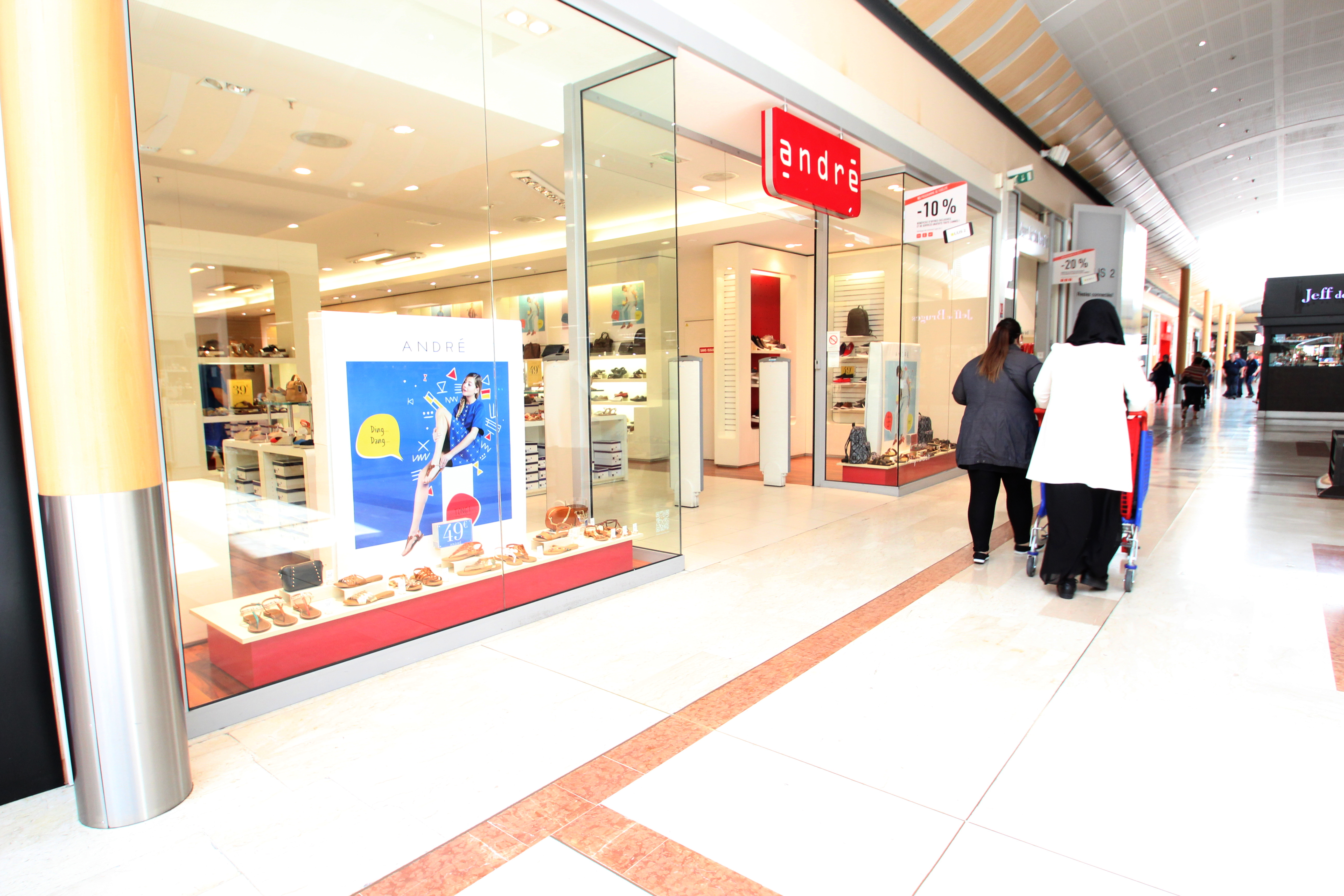 Ulis 2 shopping mall in Les Ulis, France. Object location48° 40′ 35.76″ N, 2° 10′ 18.84″ E